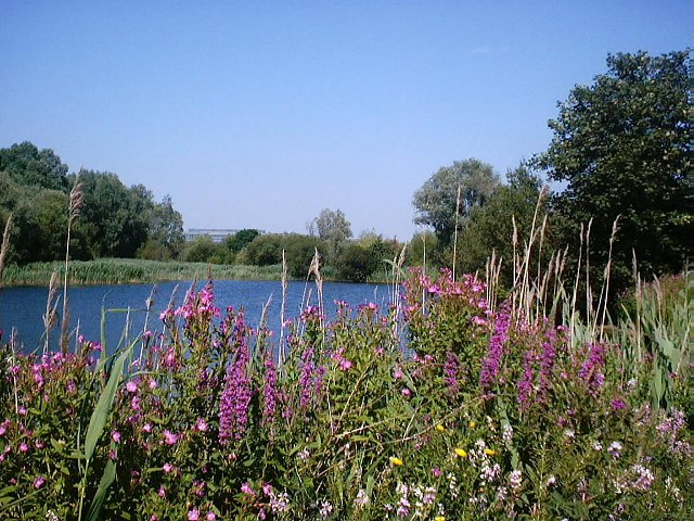 Bedfont Lakes Country Park. Wild flowers are a delightful feature of this country park. It was created about 10 years ago from gravel pits & rubbish dumps.